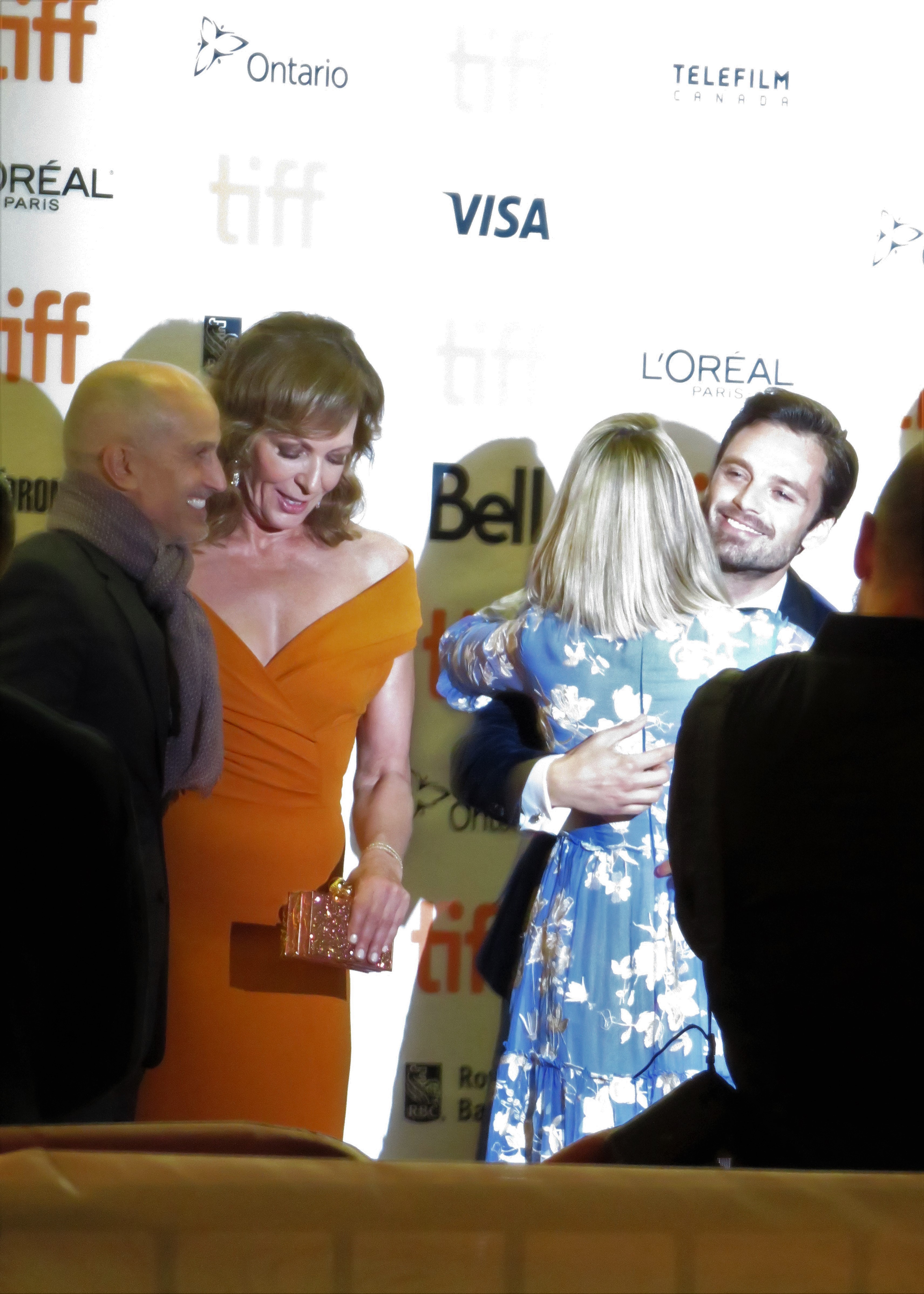 You'd be this happy to hug Margot Robbie too. Allison Janney, Sebastian Stan, Margot Robbie at the premiere of I Tonya, 2017 Toronto Film Festival